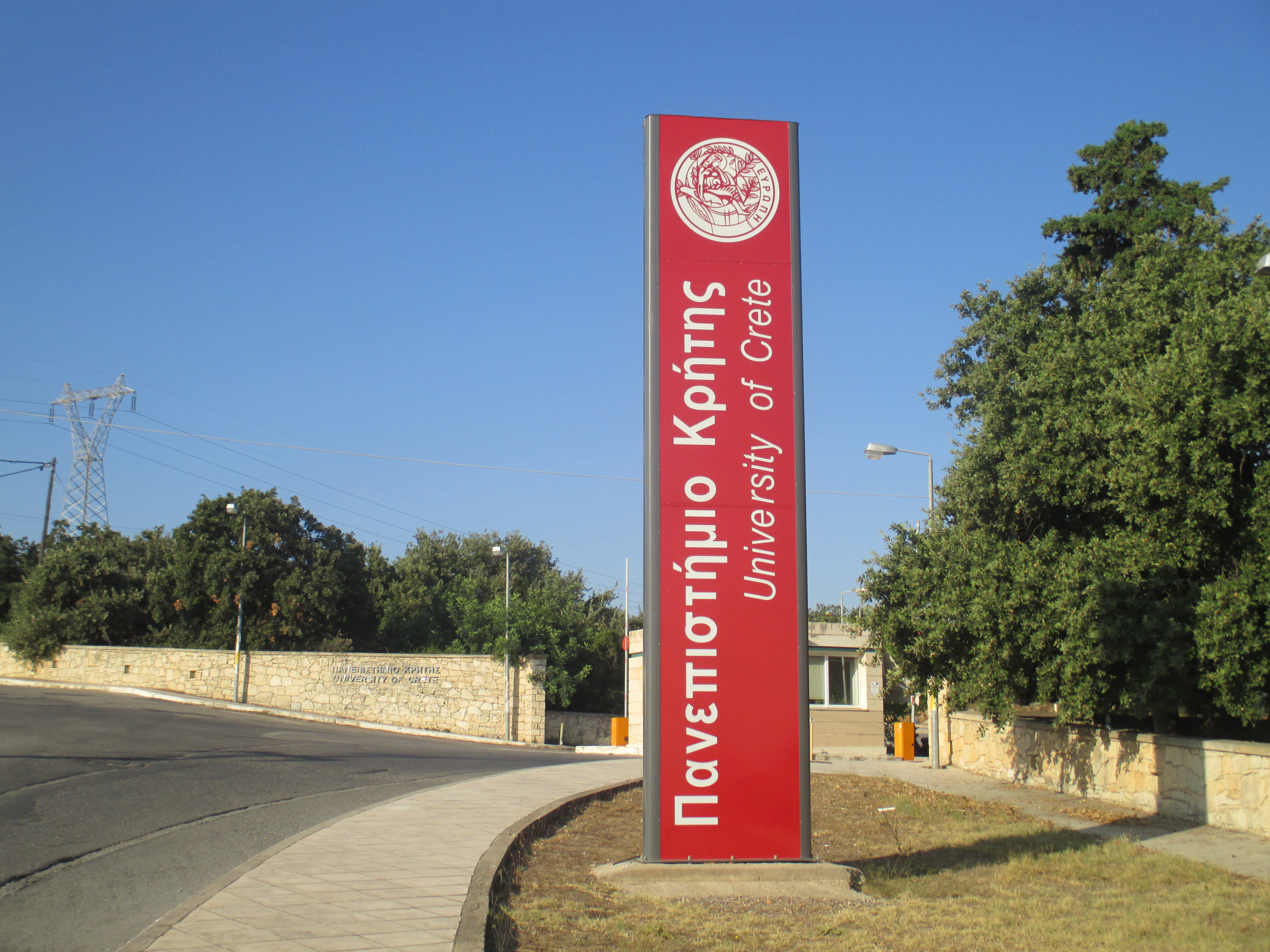 University of Crete, Rethymno Campus.